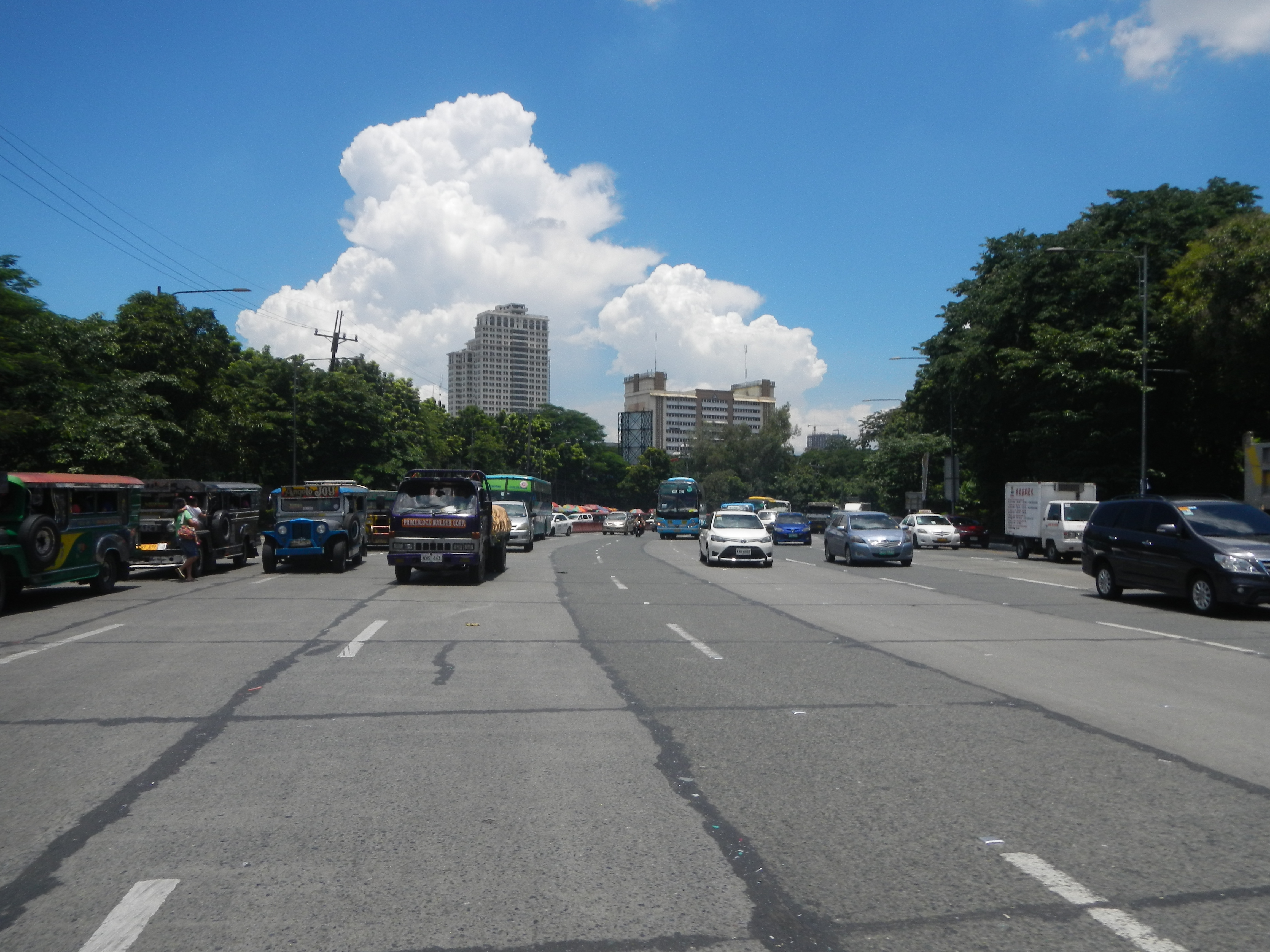 Quezon Avenue Quezon Avenue (EDSA-Elliptical Road: Commonwealth Avenue, East Avenue, North Avenue, Kalayaan Avenue & Visayas Avenue Roundabout section) interconnecting with Commonwealth Avenue Extension (Elliptical Road - PhilCoa Footbridge - Barangays Old Capitol Site, San Vicente & U.P. Village - Iglesia Ni Cristo Central, Quezon City Section) from Epifanio de los Santos Avenue (EDSA, Roosevelt Avenue-Quezon Avenue-Kamuning, Quezon City section) EDSA (road) by the Quezon Avenue MRT Station located in Legislative districts of Quezon City District I, Barangays of Quezon City Barangay Central along BIR Road to Agham Road and NIA Road, Crossing Junction, District 1, Diliman, Quezon City to Elliptical Road, Quezon City (accessed from from EDSA (road) Epifanio de los Santos Avenue (EDSA, Roosevelt Avenue-Quezon Avenue-Kamuning, Quezon City section) Quezon Avenue MRT Station to Epifanio de los Santos Avenue (EDSA, Balintawak-Roosevelt Avenue, Quezon City section) to List of roads in Metro Manila (Note: Judge Florentino Floro, the owner, to repeat, Donor Florentino Floro of all these photos hereby donate gratuitously, freely and unconditionally all these photos to and for Wikimedia Commons, exclusively, for public use of the public domain, and again without any condition whatsoever).